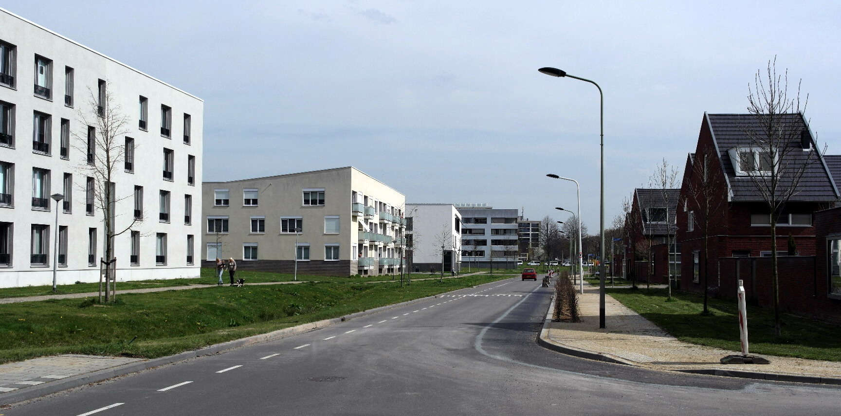 Maastricht, the Netherlands. View of modern apartment blocks and terraced houses along Schepelruwe in the neighbourhood of Malberg in Maastricht-West, part of an urban renewal project.